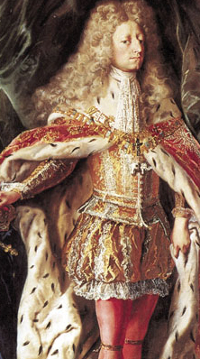 frederick in coronation robes